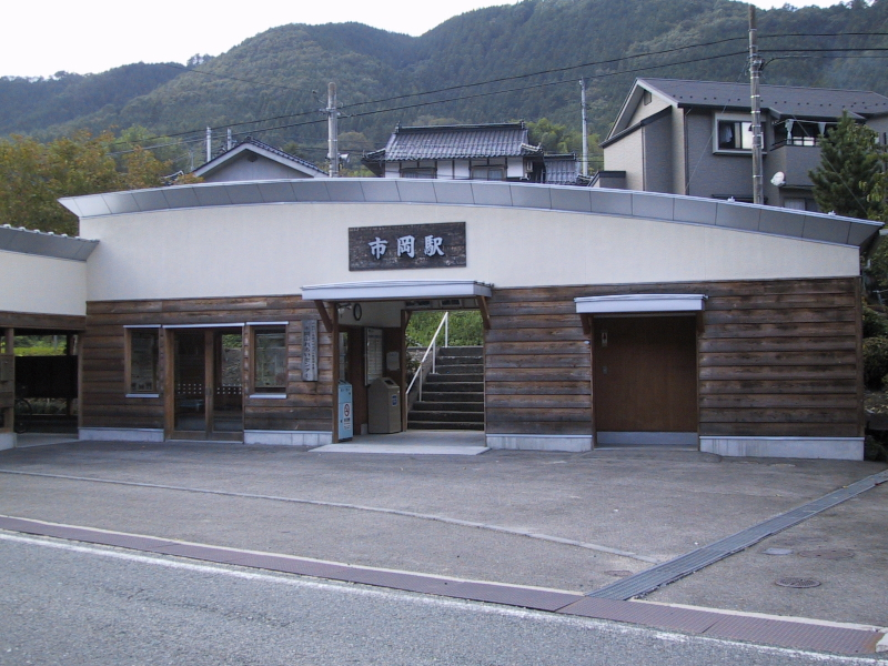 The Ichioka Station building in Niimi, Okayama Prefecture, Japan.